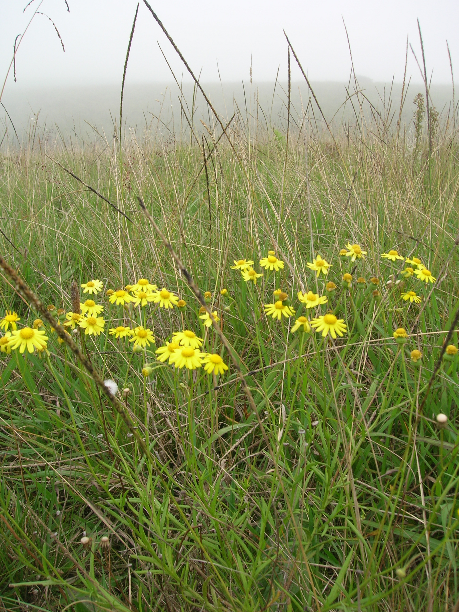 Senecio madagascariensis (flowering habit). Location: Maui, Haleakala Ranch